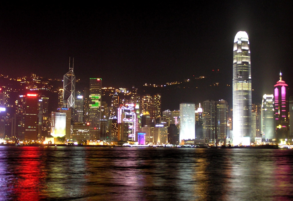 The Victoria Harbour, Hong Kong, China The photograph was taken by Alan Mak in December, 2004.